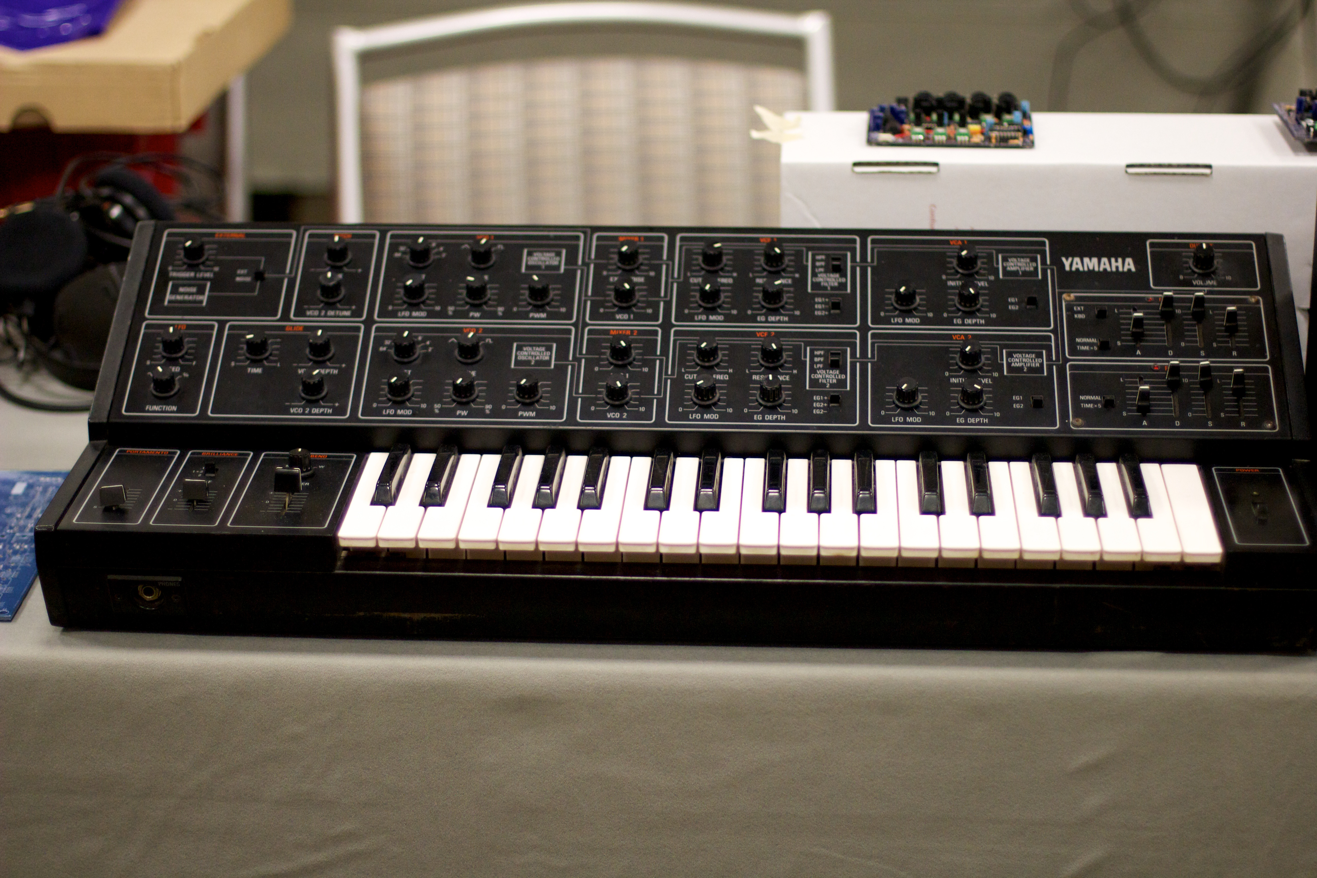 They're so cute when they're all tidied up. This one was restored by "The Old Crow" – who is not really that old, if you ask me – who does some really interesting work replicating old synths with modern compatible pcbs and circuitry (check him out at I was particularly delighted with this one as I've got Jay Lemak fixing up my own CS-15 at the moment.